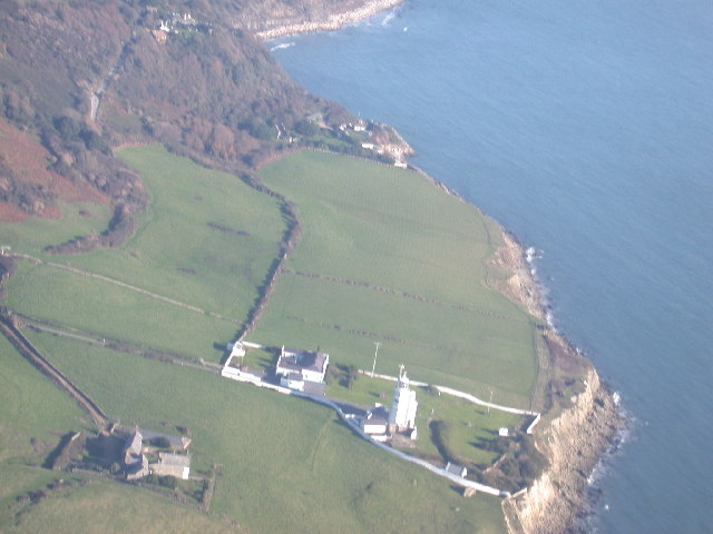 St Catherines lighthouse and Point.